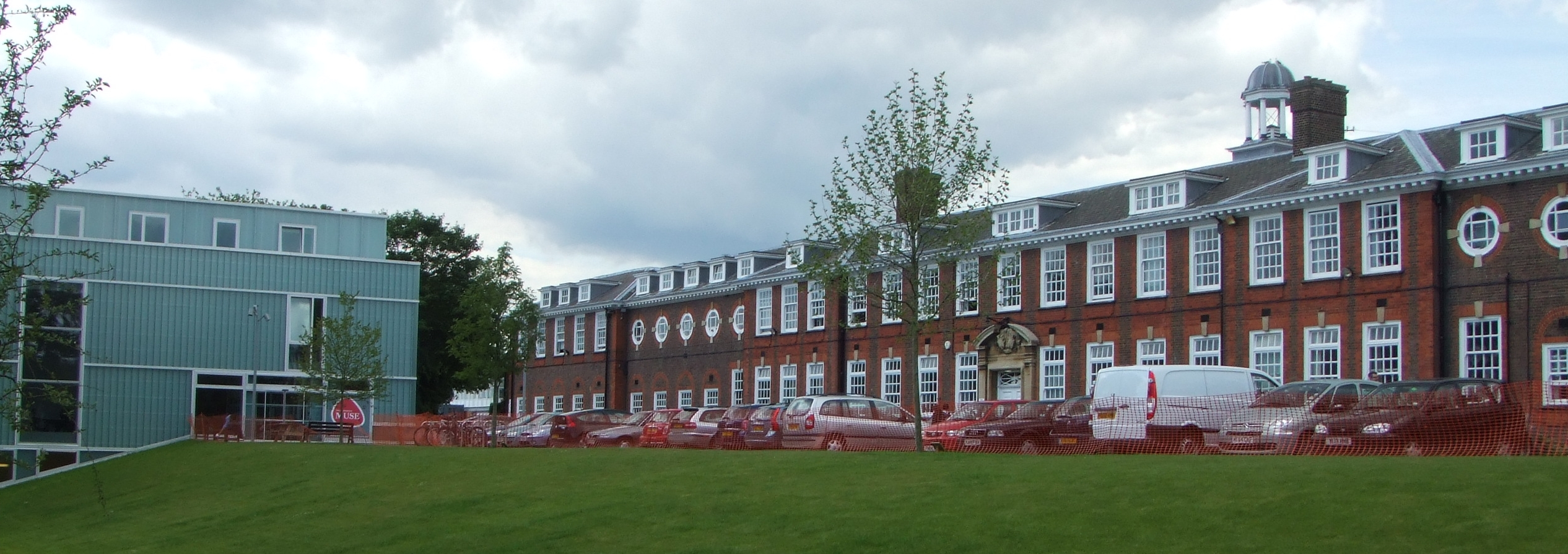 Clarendon Muse and main block of Watford Grammar School for Boys, Watford, Hertfordshire, England, UK.